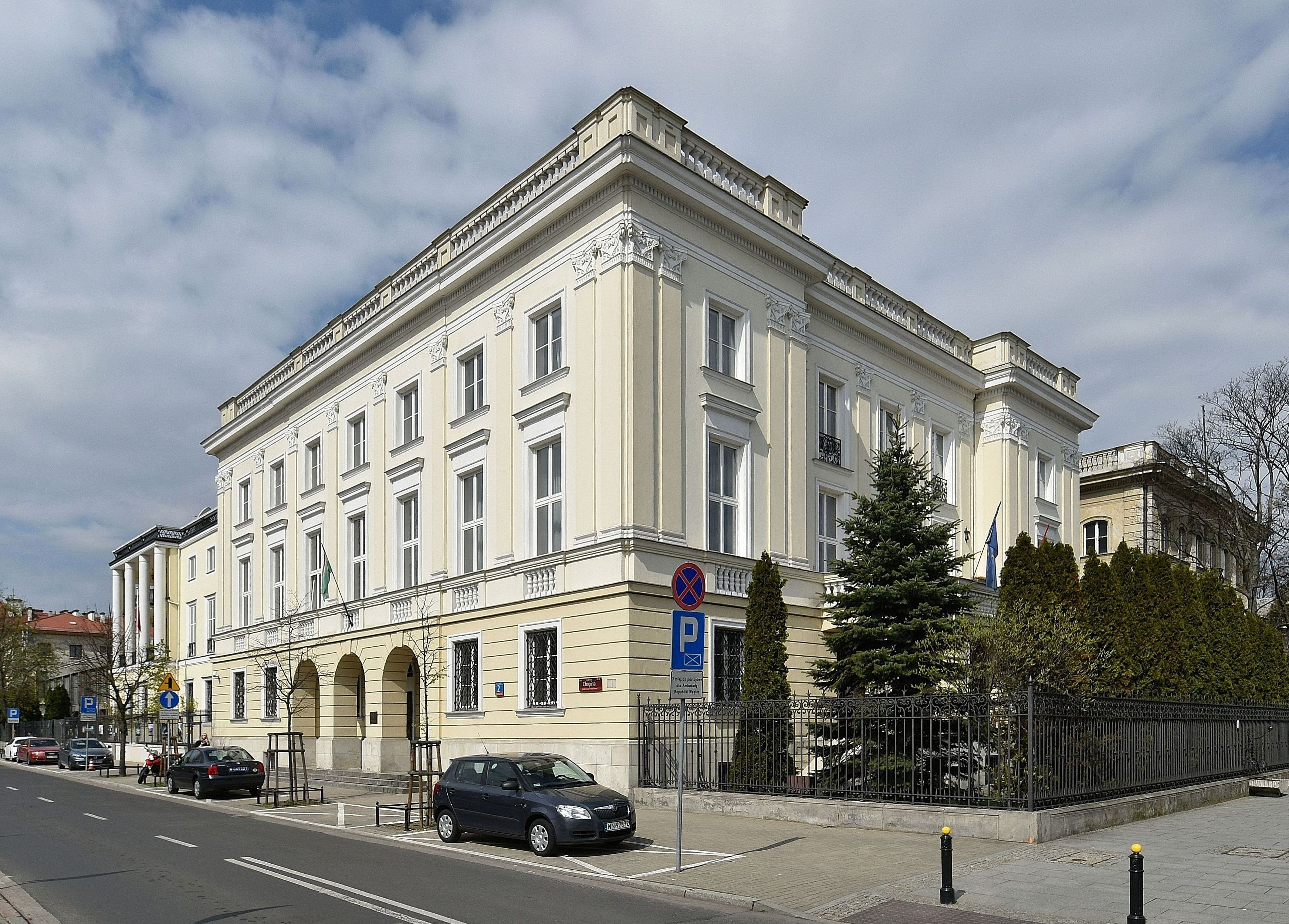 Embassy of Hungary at 2 Chopina Street in Warsaw